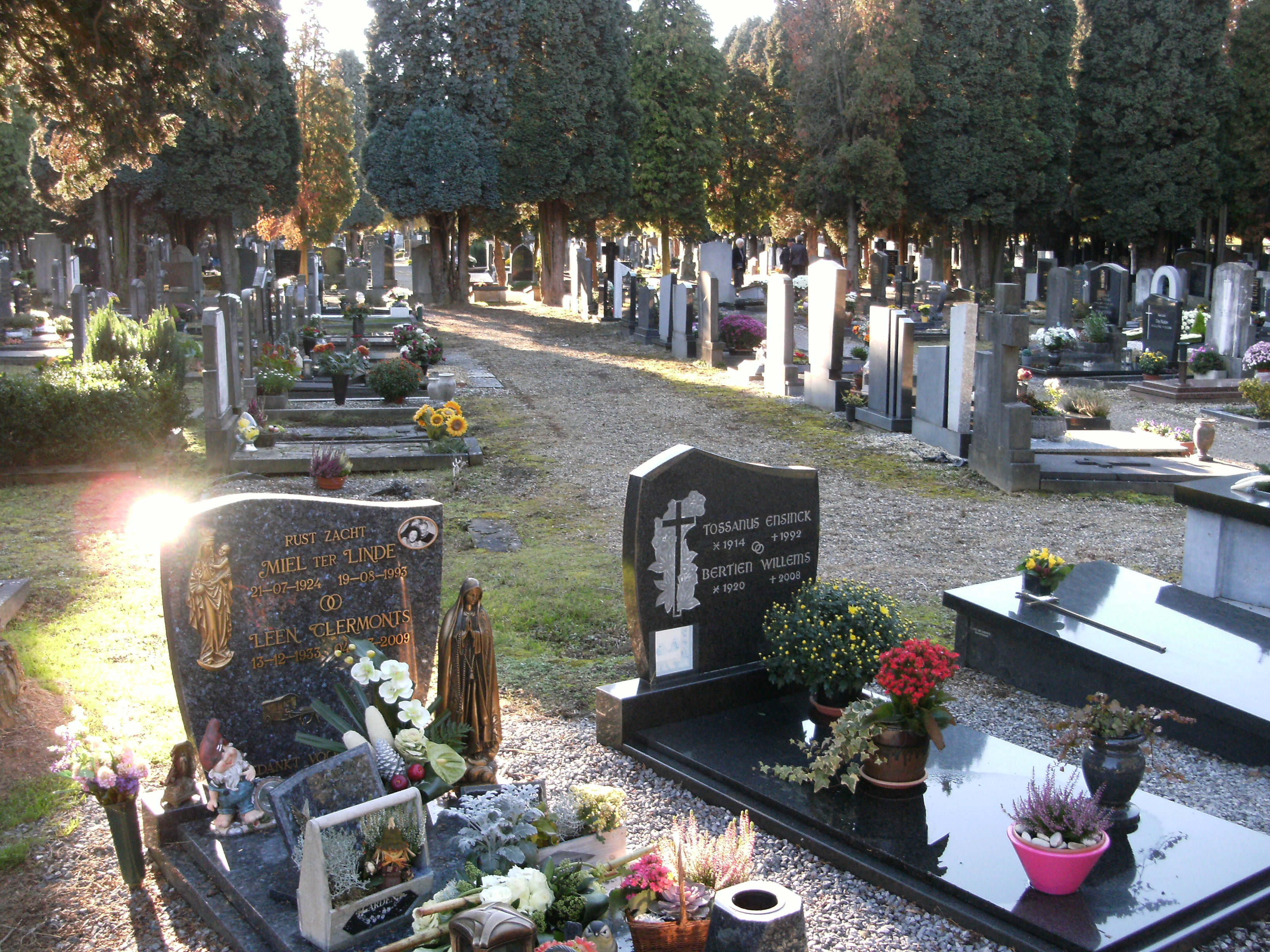 Cemetery Tongerseweg in Maastricht.